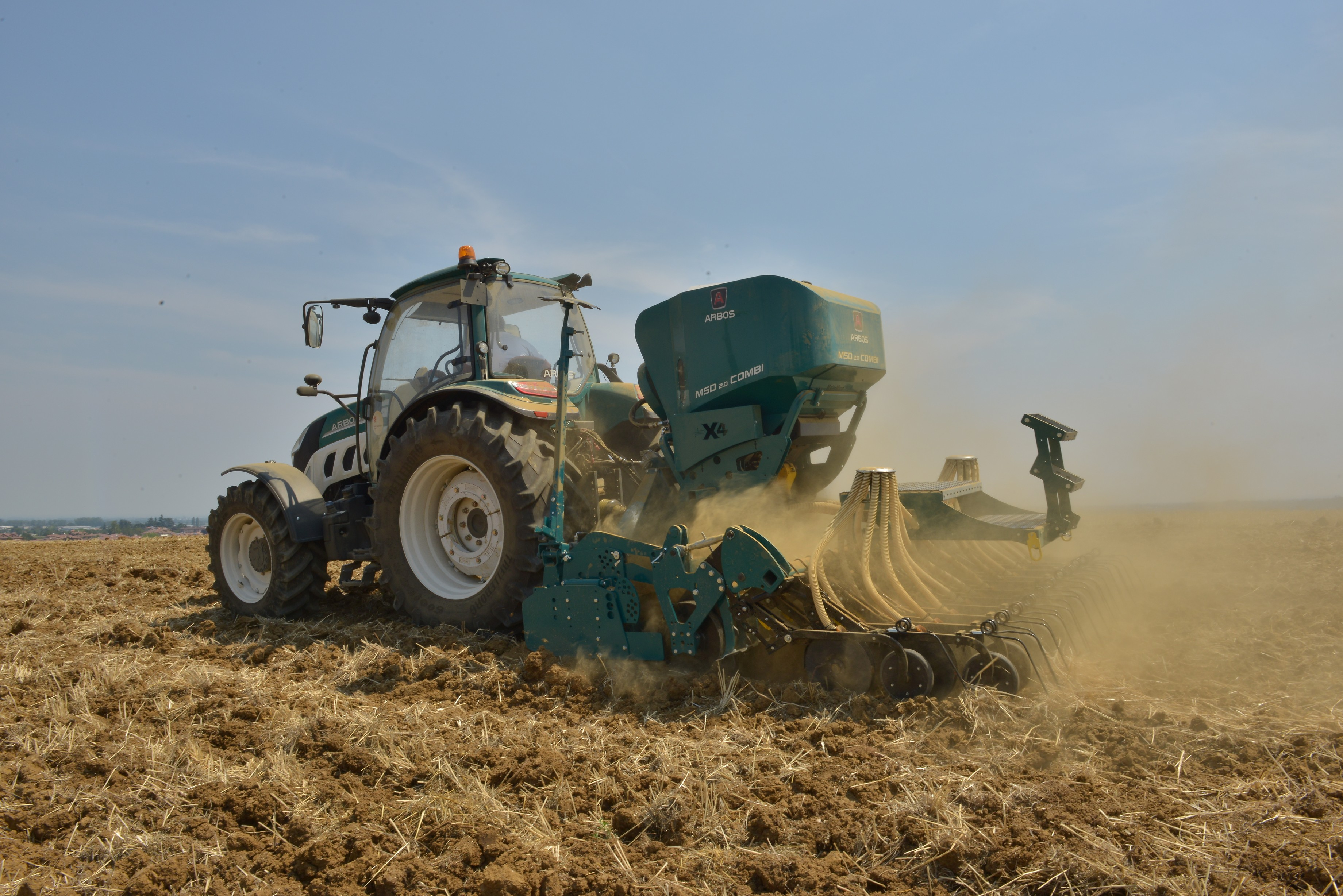 ARBOS 5115 with combined seeder